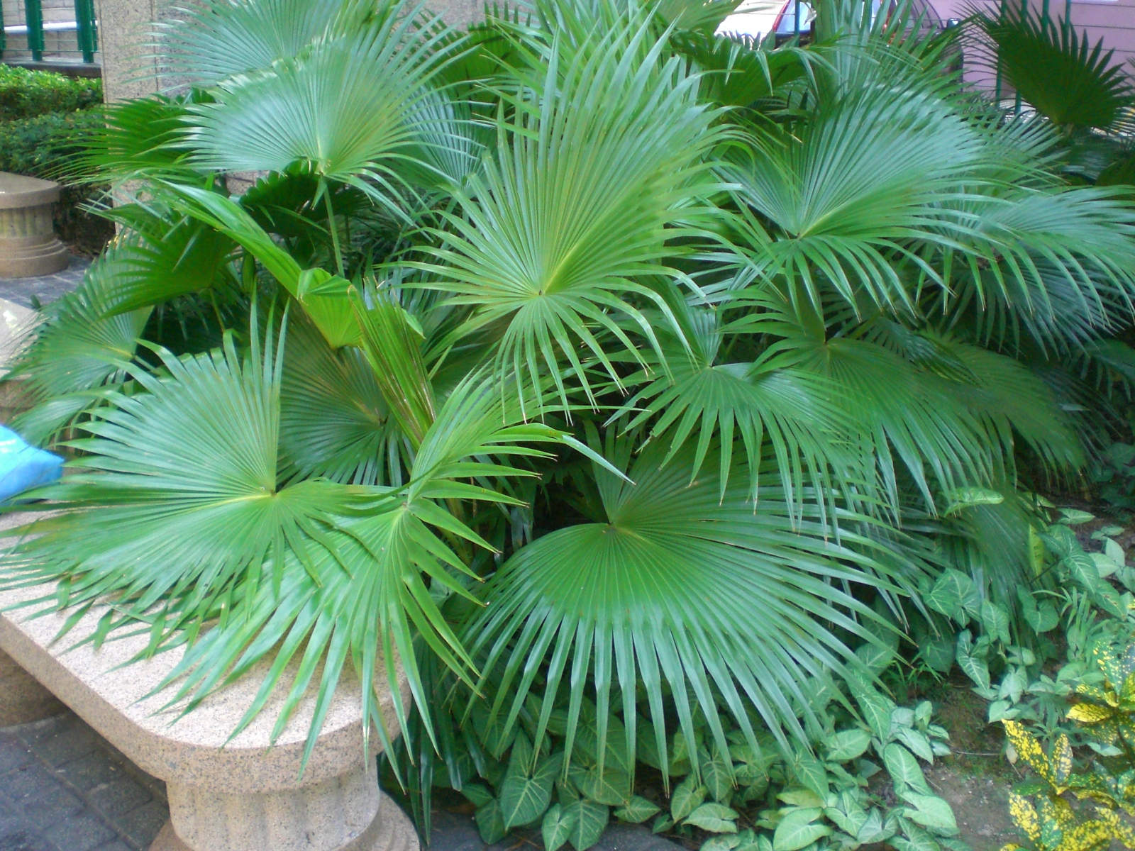 Young Chinese fan palm (Livistona chinensis) in Leighton Hill Public Garden, Happy Valley, Hong Kong.